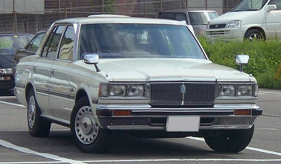 Toyota Crown Super Saloon series 110